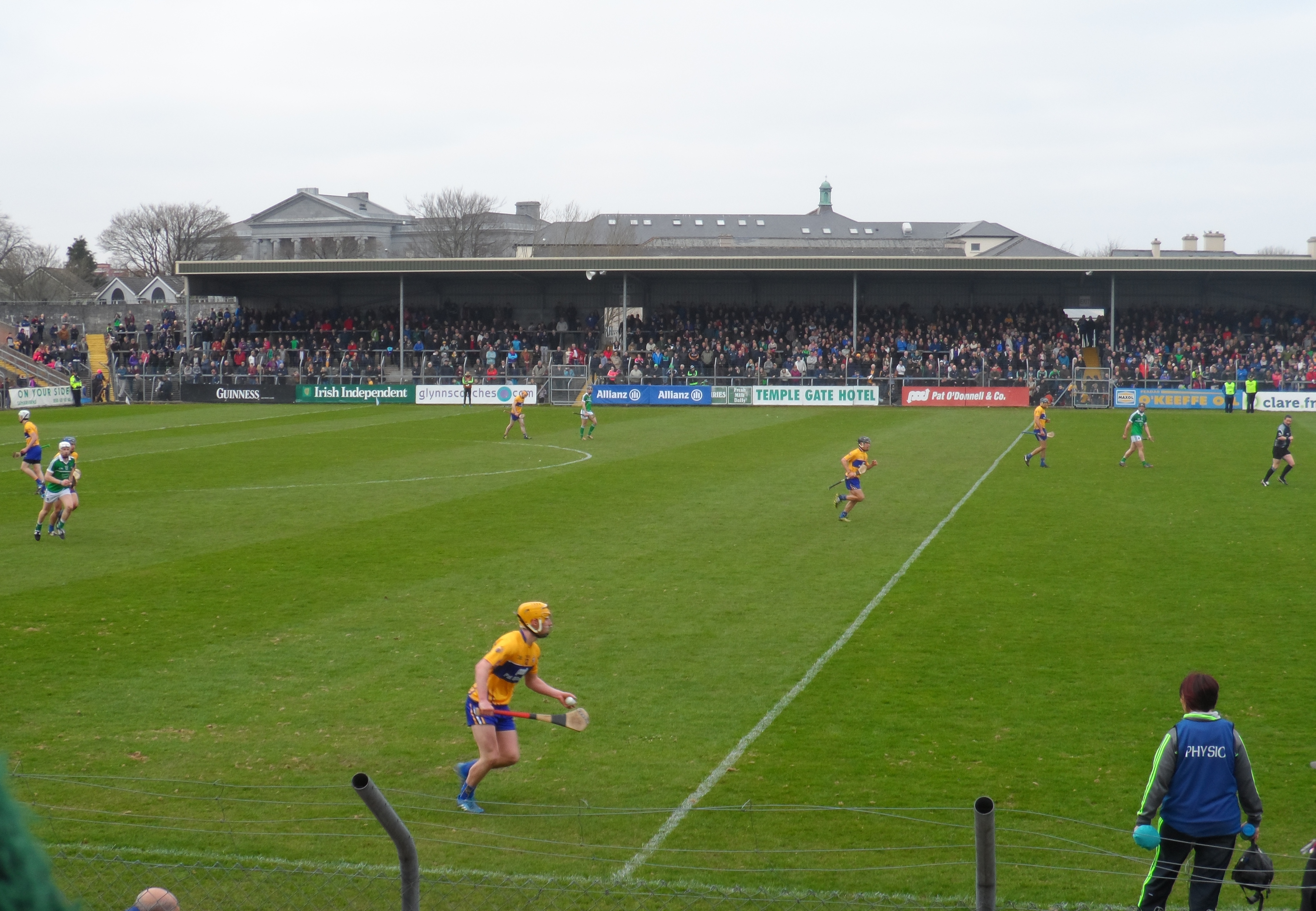 Hurling game, Cusack Park, Ennis